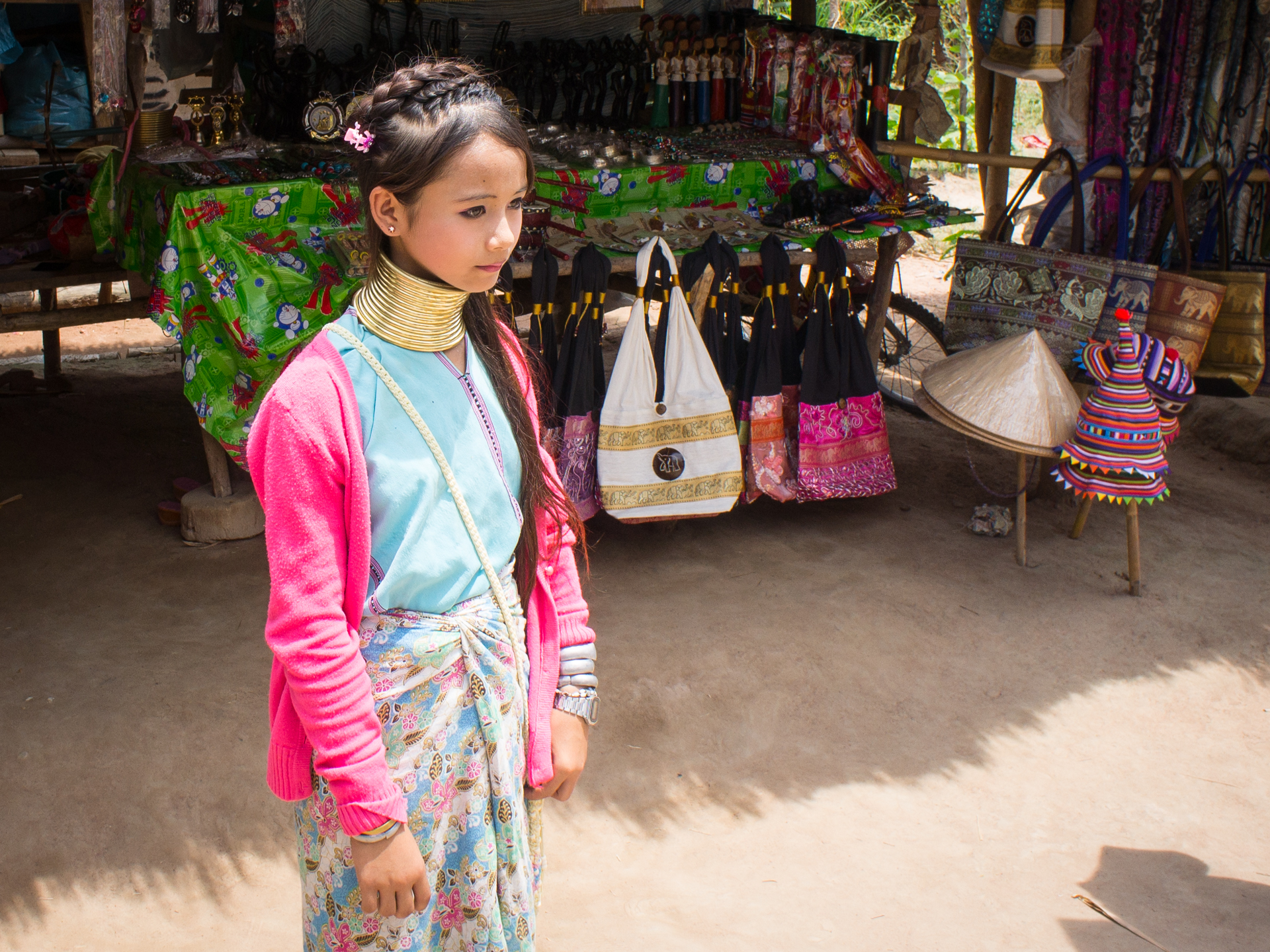 Kayan girl at village nearby Ayutthaya city in Thailand